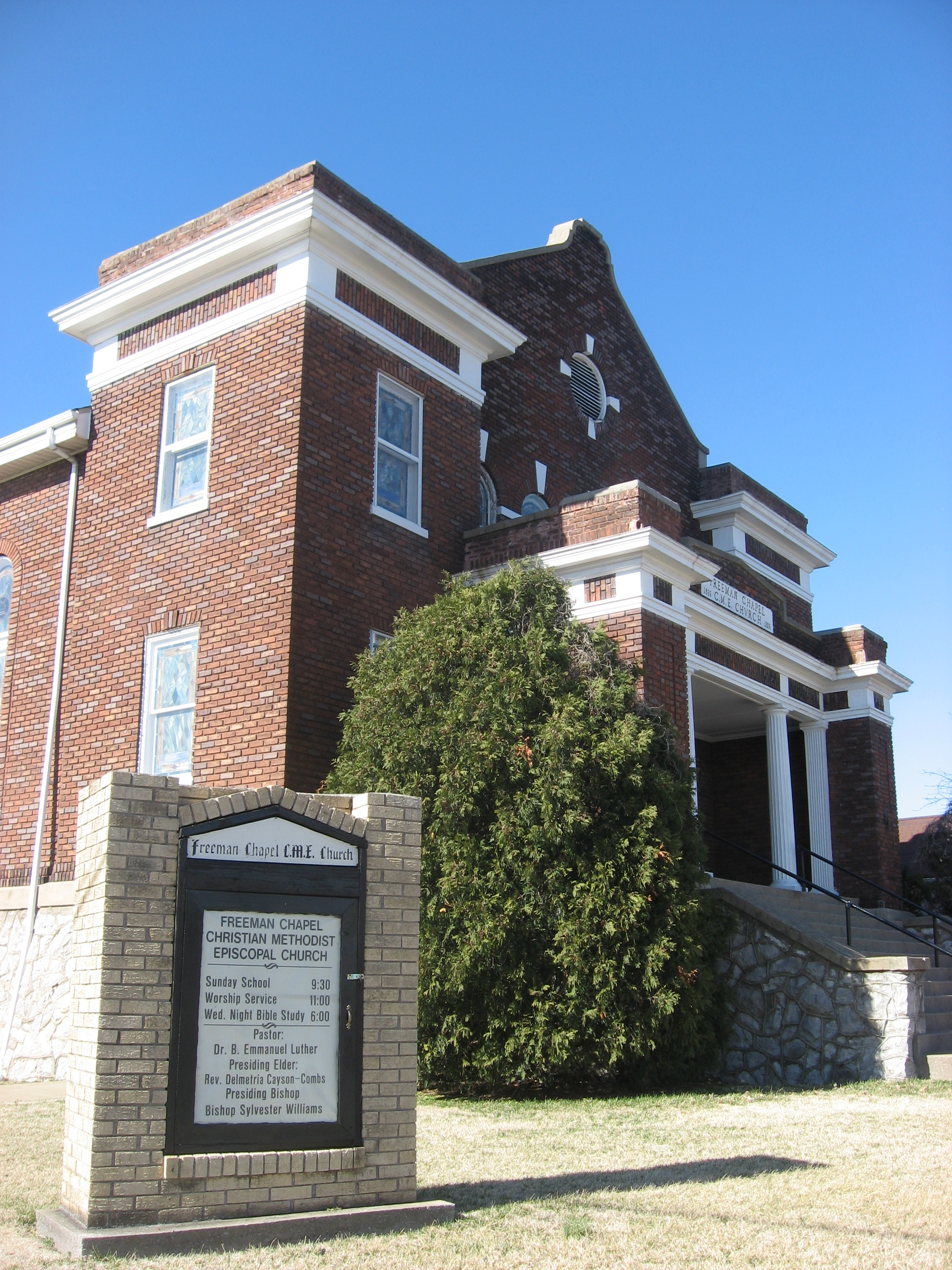 Front of Freeman Chapel C.M.E. Church, located at 137 S. Virginia Street (U.S. Route 41) in Hopkinsville, Kentucky, United States. Built in 1923, it is listed on the National Register of Historic Places.